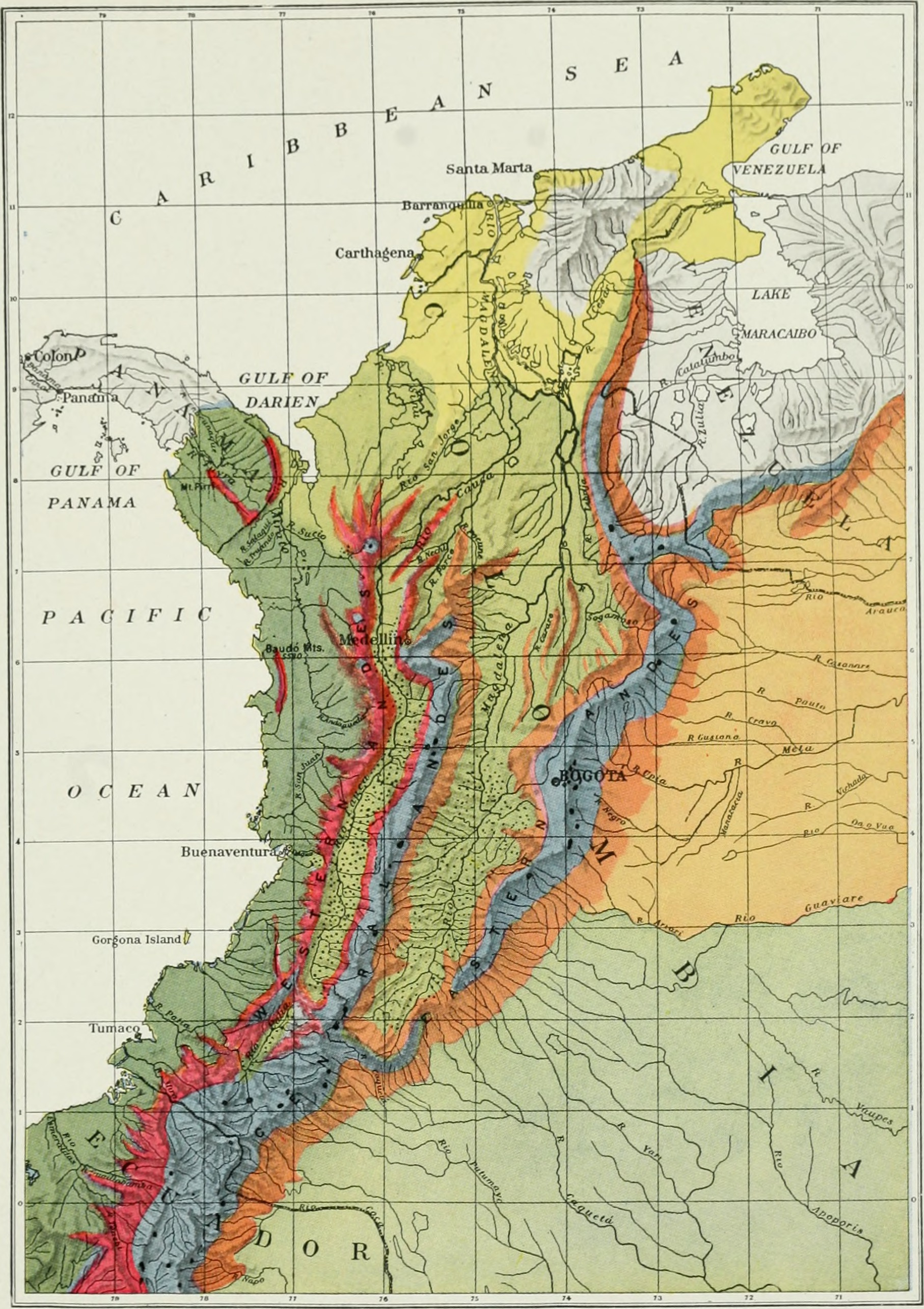 Title: The American Museum journal Year: [1918 c1900-[1918 (c190s) Authors: American Museum of Natural History Subjects: Natural history Publisher: New York : American Museum of Natural History Text Appearing Before Image: ' Text Appearing After Image: Colombian Life Zones (vertical distribution) and Faunas (horizontal distribution in the Zones) Colombia is a country just north of the equator, yet because of its mountains, it has as great diversity in climate and plant and animal life as can l)e found anywhere on the earth. Palms and glaciers, dripping forests and sandy deserts, tropical heat and blinding snowstorms, greet the traveler in rapid succession. In the development of faunas in Colombia, humidity, character of soil, and ease of access have been the active agents. West Andean Fauna Tkomcai, W^M Colombian-Pacific Fauna I '-\ Cauca-Magdai.ena Fauna 1 I I Caribbean Fauna ^^B Okinocan Fauna I I A.mazonian Fauna Subtropical \ Zone 'j Temperate Zone Paramo Zone East Andean Fauna Temterate Fauna Paramo Fauna 'The dotted area is the arid portion of this fauna.